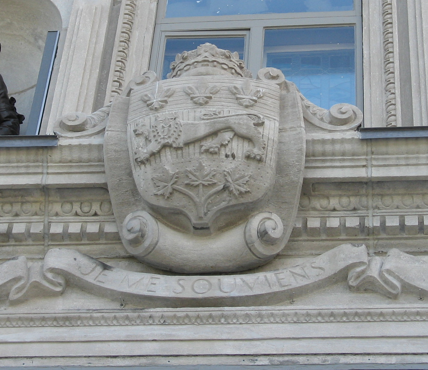 Façade of the National Assembly building in Quebec City.